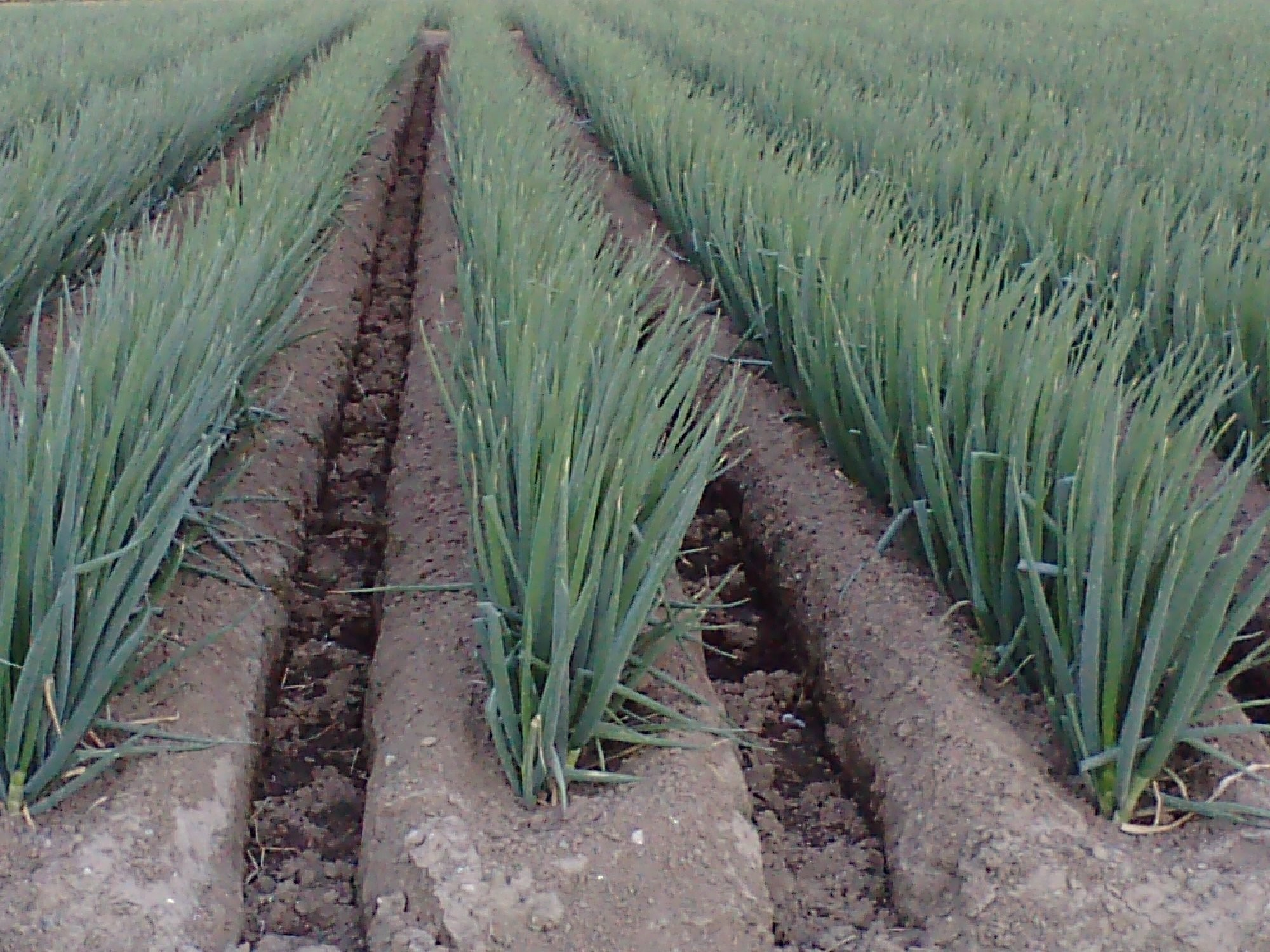 une(Japanese)(ridge)which is between plowed furrows, cultivating Welsh onion or Scallion